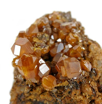 Stolzite Locality: Broken Hill, Yancowinna County, New South Wales, Australia (Locality at ) Size: miniature, 3.6 x 3.0 x 2.6 cm Stolzite Translucent, lustrous, caramel colored, stolzite (lead tungstate) crystals, to 3.5 mm across, are perched on a limonitic matrix. Their tetragonal form is evident in the well-developed crystals. Broken Hill is considered one of the top localities for this species.